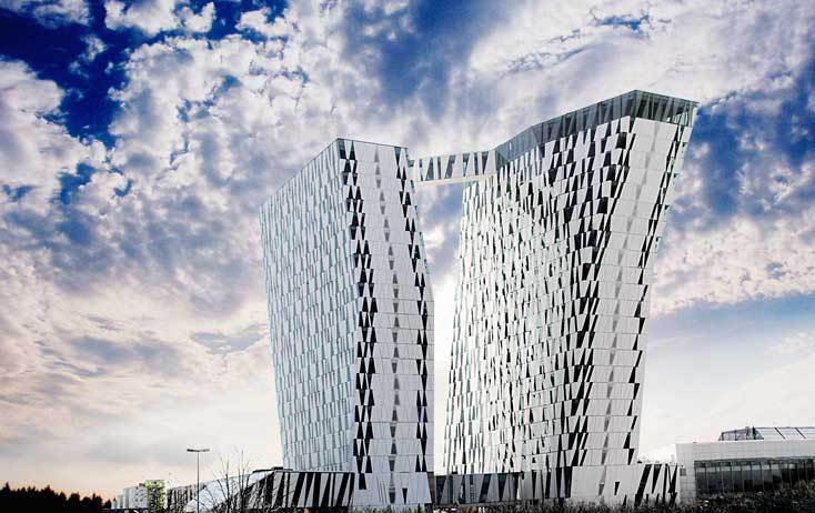 Bella Sky Hotel, a part of the Bella Center Congress Center (convention center) in Ørestad city, located on the island of Amager in what is known as south east Copenhagen, capital of Denmark.